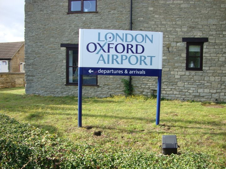 London Oxford Airport